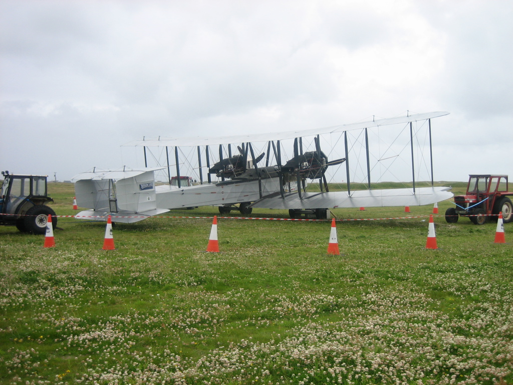 Vickers Vimy Replica shot at Connemara July 2005 Photographer, Paul Danter